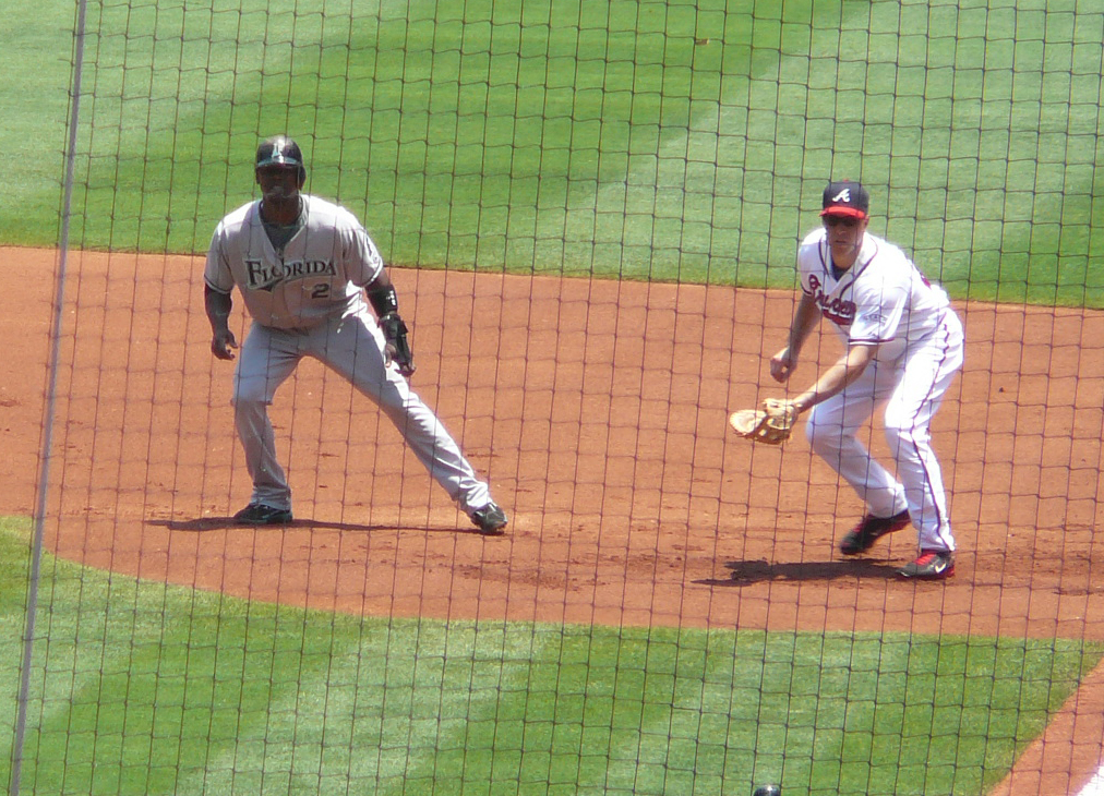 Please attribute photo with author's name if used somewhere other than Wikipedia. 18:24, 4 August 2008 . . Chrisjnelson . . 1,012×730 (758 KB)